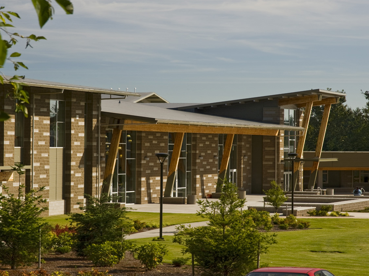 Picture of Timberline HS Campus - Lacey, Washington